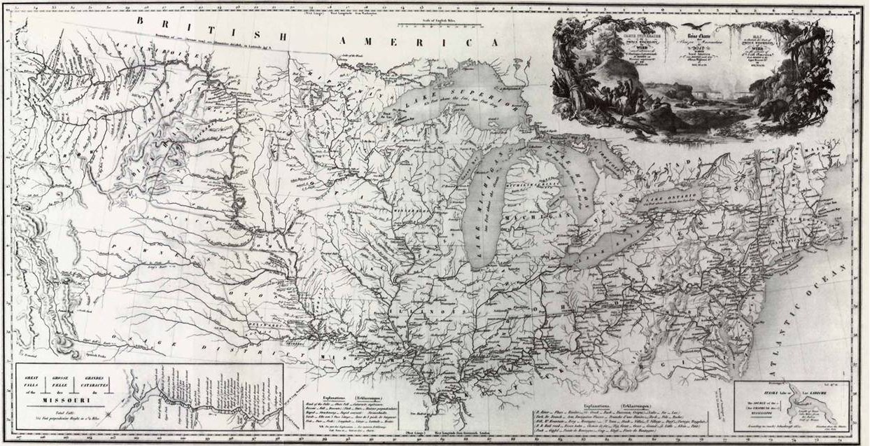 Map from Maximilian, Prince of Weid's Travels in the Interior of North America, 1832-1834, volume I From the London edition, 1843.